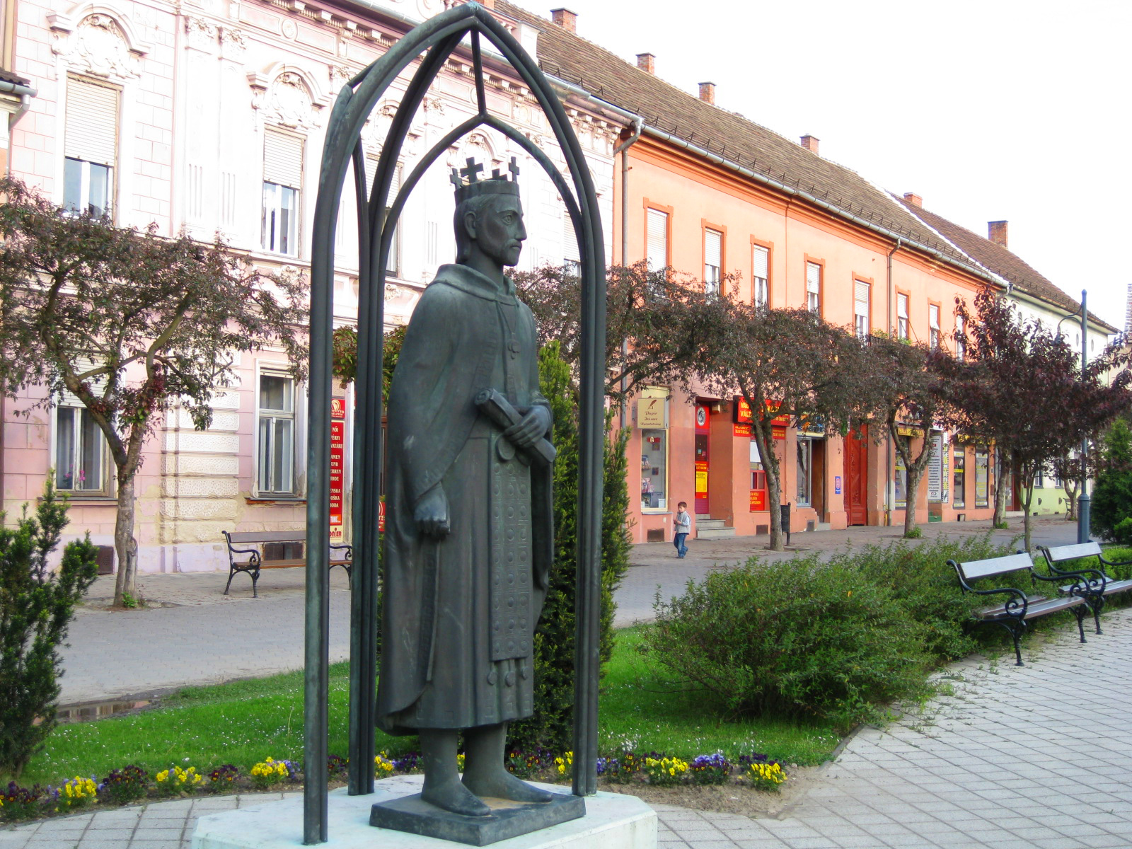 Monošter (Szentgotthard, Hungary), kip Bele III.